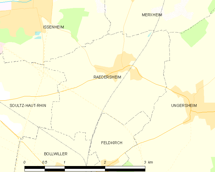 Map of French municipality